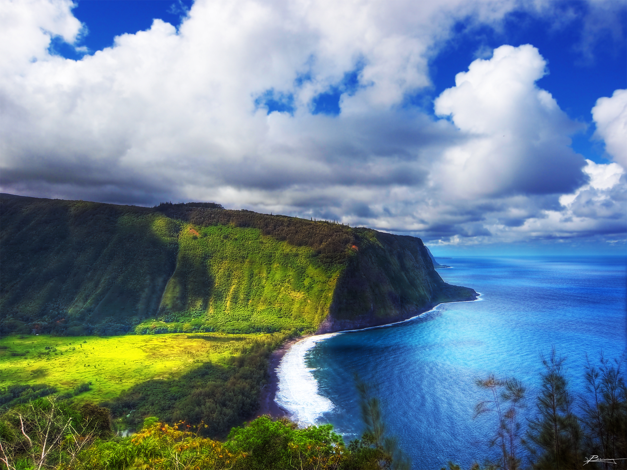 Waipio Valley, Big Island, Hawaii.